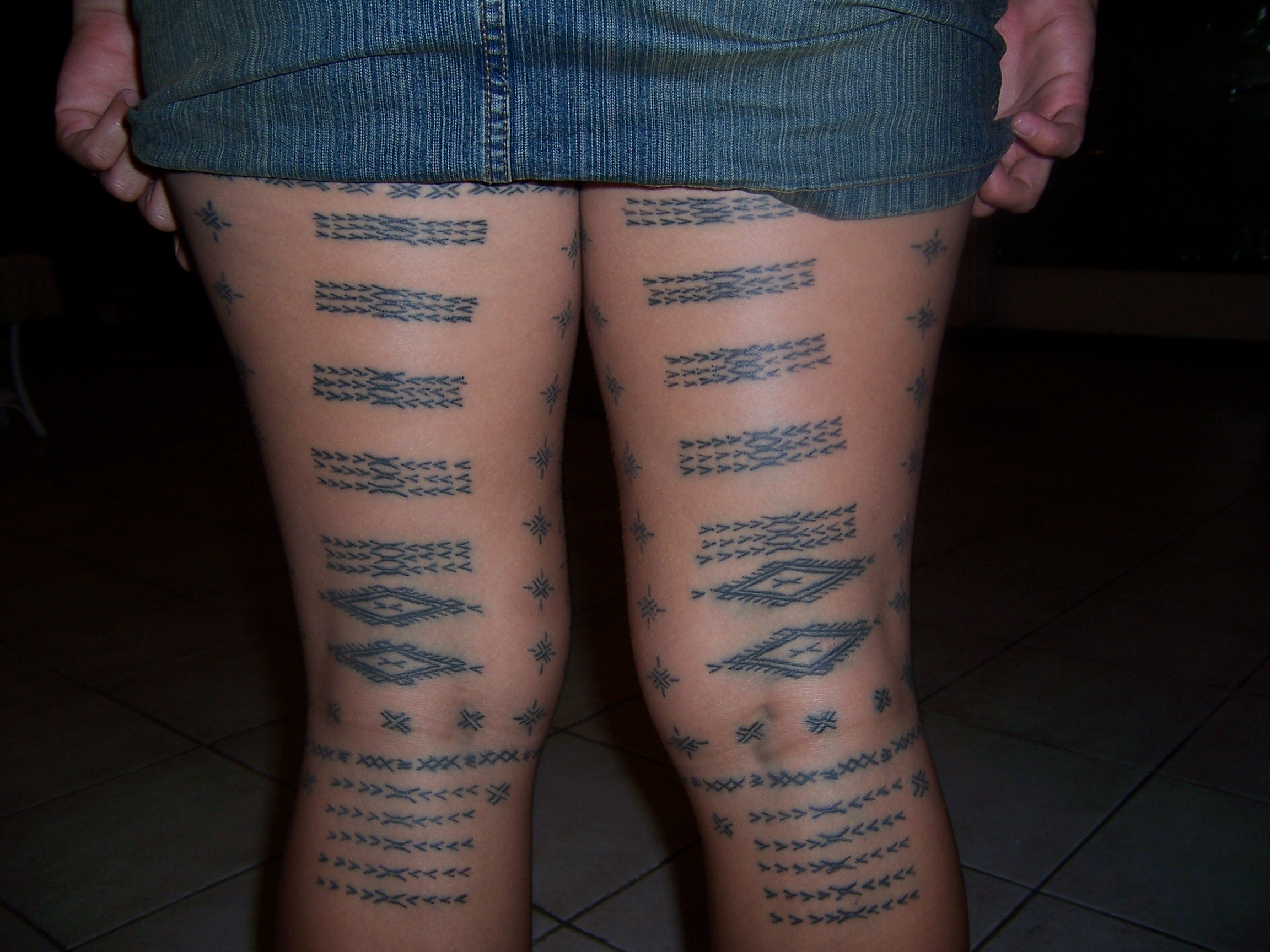 Photo of a Samoan woman with a traditional Malu (tattoo).